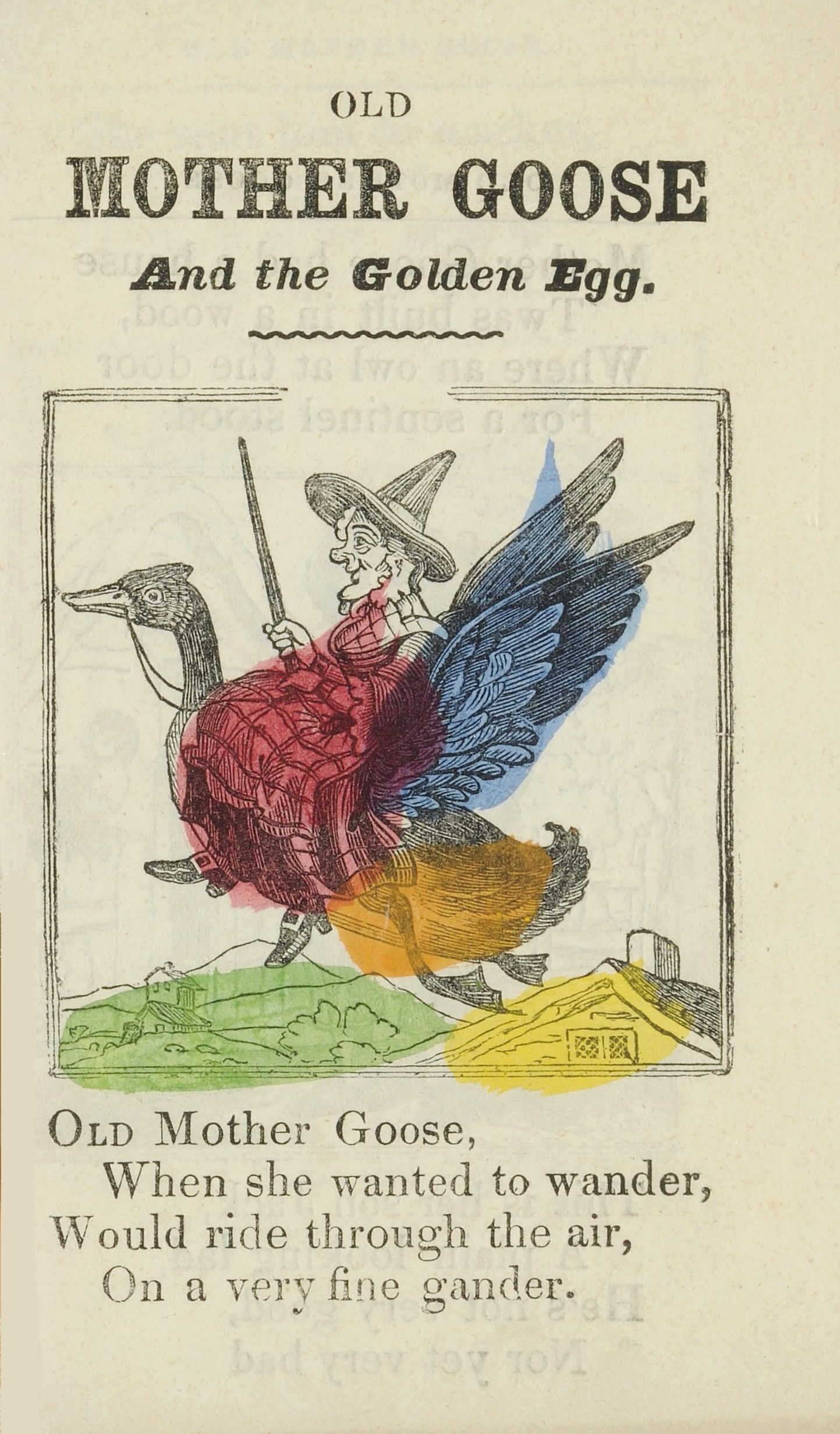 The opening verse of "Old Mother Goose and the Golden Egg", a poem based on the plot of the popular pantomime first performed in 1806, "Harlequin and Mother Goose, or The Golden Egg". This appeared in a chapbook published in the 1860s or later, now held in McGill University.